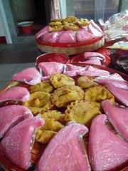 Tao Kuih